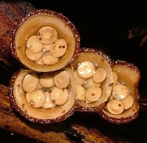 The bird's nest fungus Crucibulum laeve (Huds.: Relh) Kambly, photographed in Auckland, New Zealand.